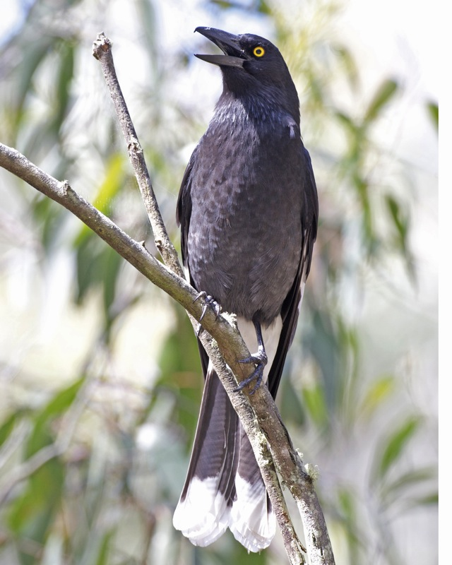 Pied currowong Strepera graculina ssp Strepera graculina nebulosa Great Otway National Park, Victoria, Australia Habitat: temperate rain forest 21st. September 2009 Distribution: 690V4508